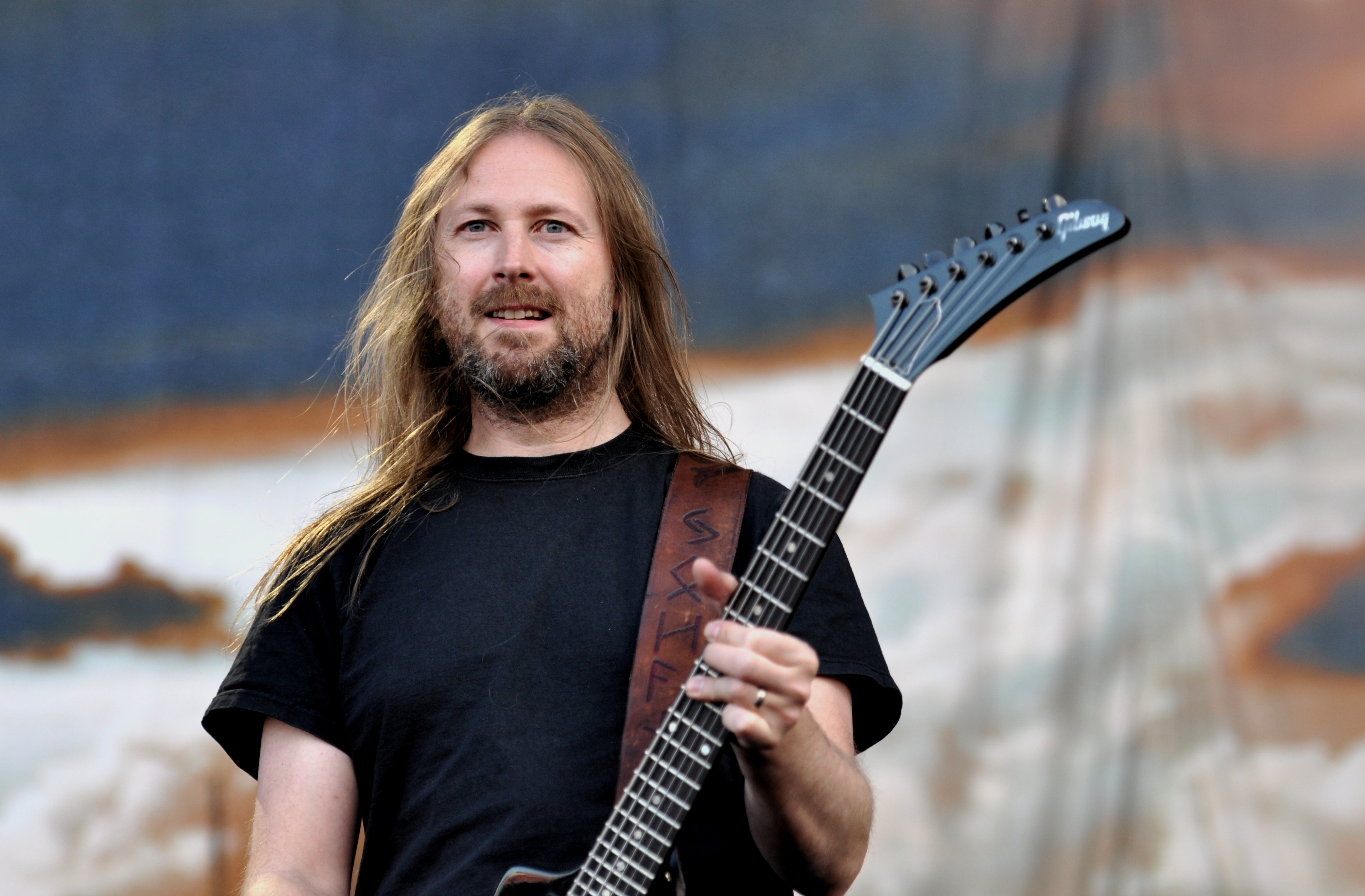 Amon Amarth at Rock am Ring 2013